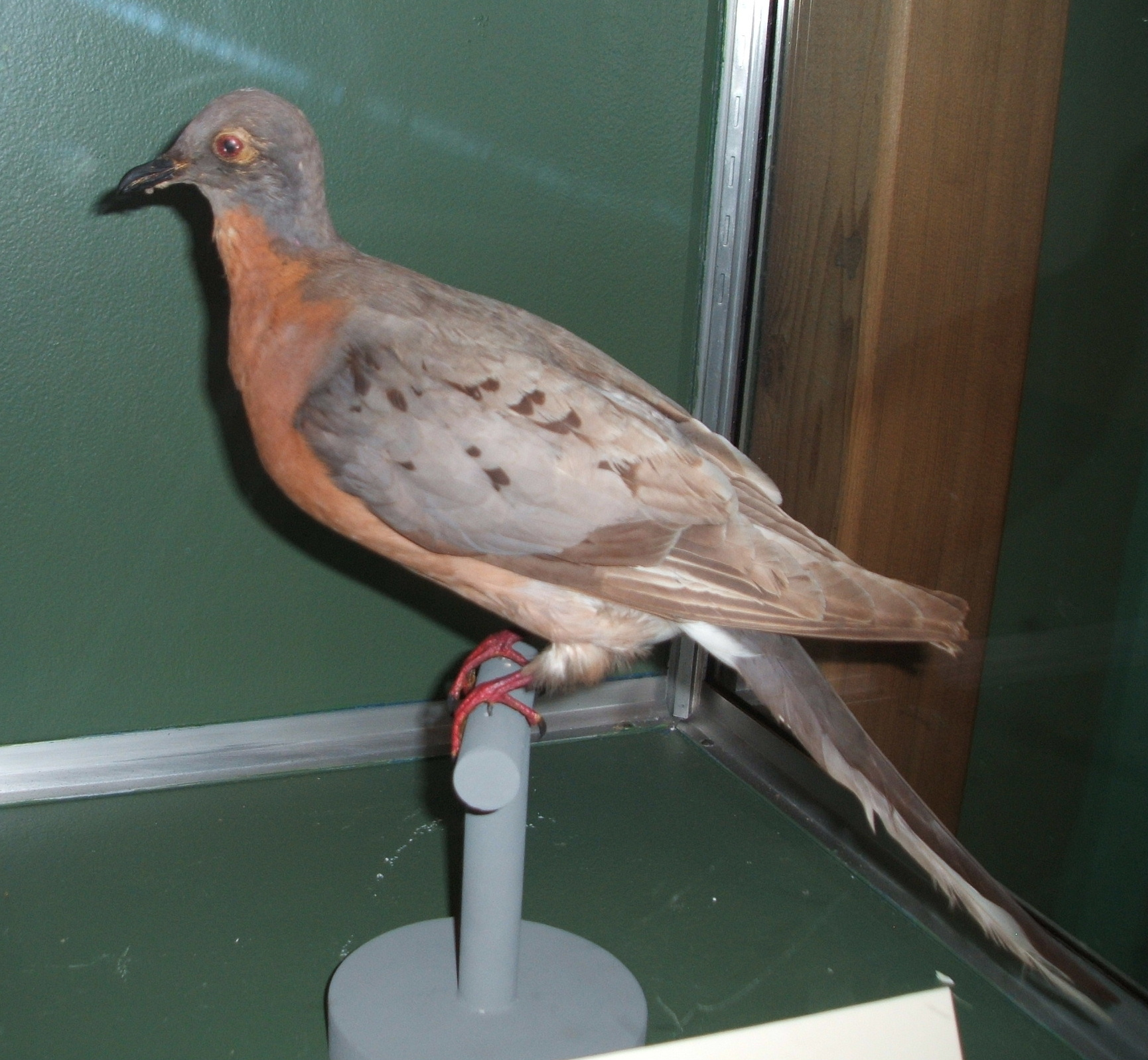 Stuffed specimen of the extinct Passenger Pigeon (Ectopistes migratorius) at the Boston Museum of Science